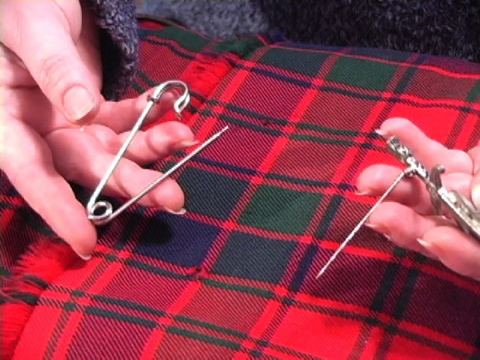 Two different types of kilt pins. On the left is a type commonly worn with girls' kilt-skirts. Note the difference in the thicknesses of the shanks of the two pins. Also note the damage to the kilt from using the thicker shanked type of kilt pin.